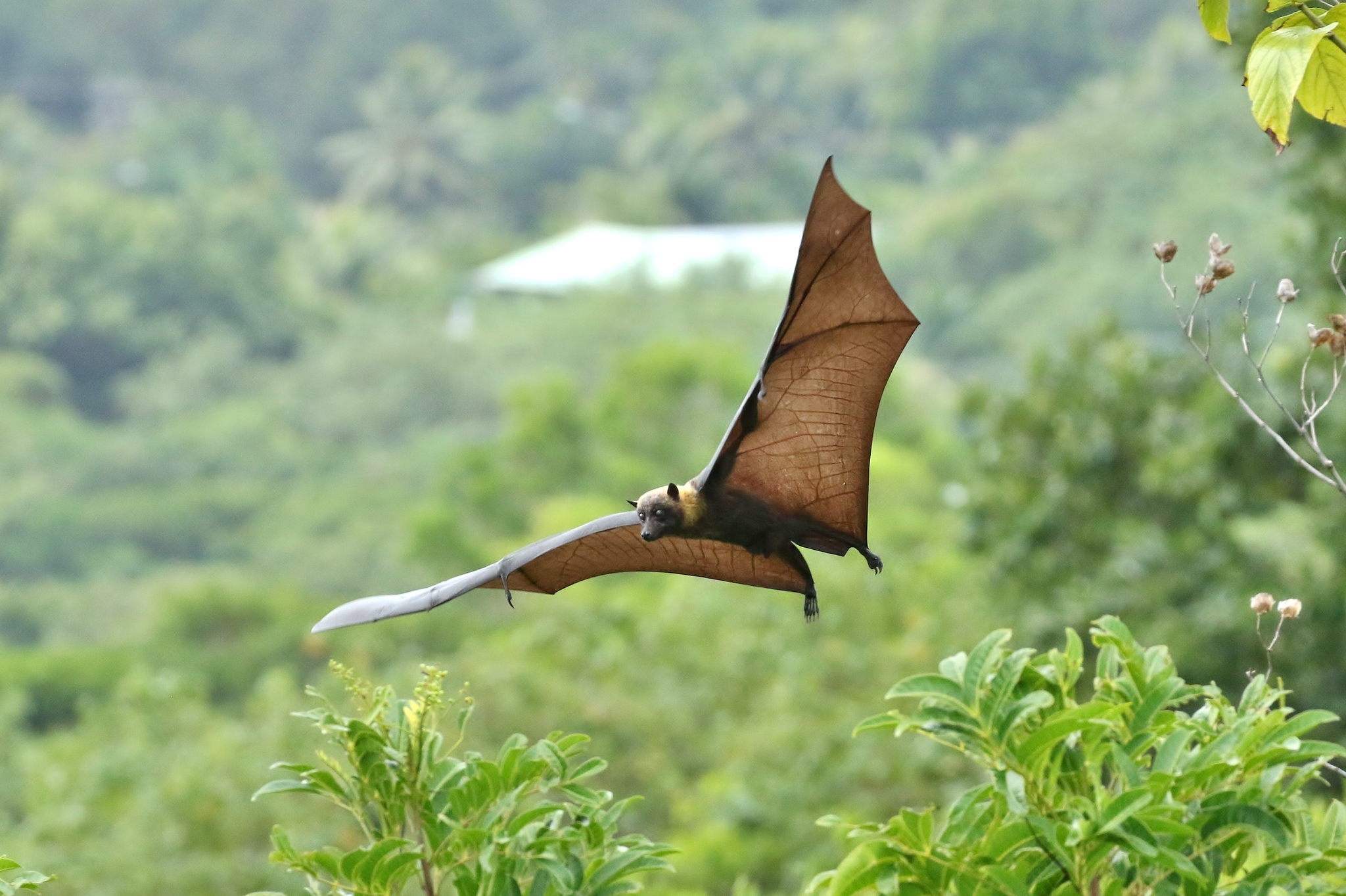 Yap Flying Fox (Pteropus pelewensis yapensis). Subspecies of bat.